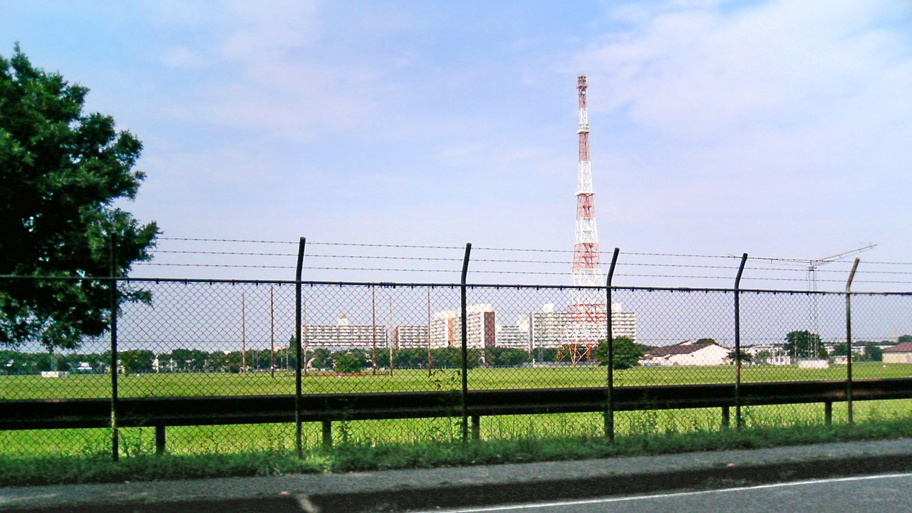 Tokorozawa Transmitter Site (U.S Air Force) - from Habataki-dōri Ave., Tokorozawa, Japan